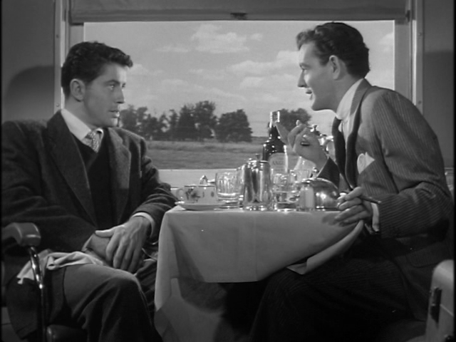 Guy Haines (Farley Granger) and Bruno Anthony (Robert Walker) in the dining car in Alfred Hitchcock's 1951 Strangers on a Train (trailer)